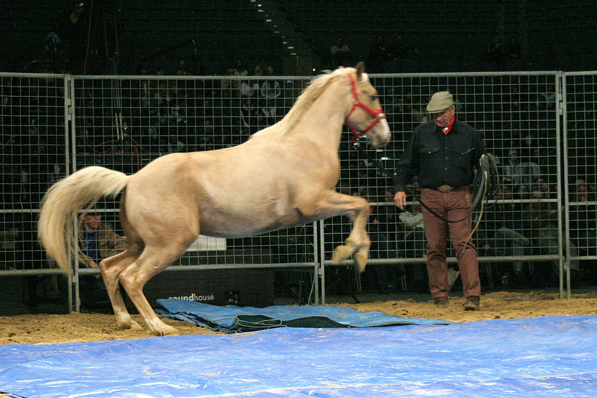 Monty Roberts desensitizes a horse afraid of water. Photo credit: 2007 Mariska de Hoogt